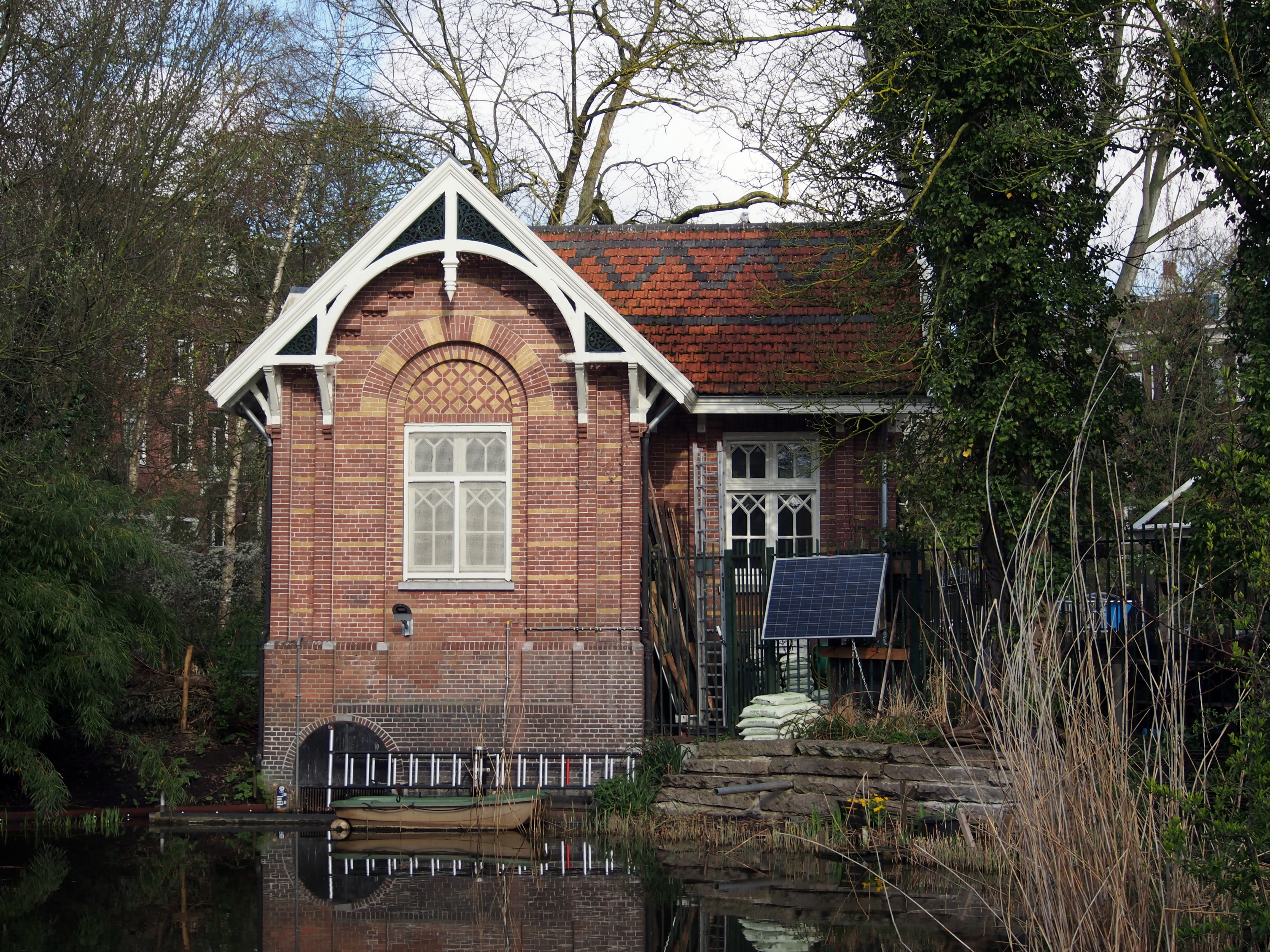 Groen Gemaal Sarphatipark